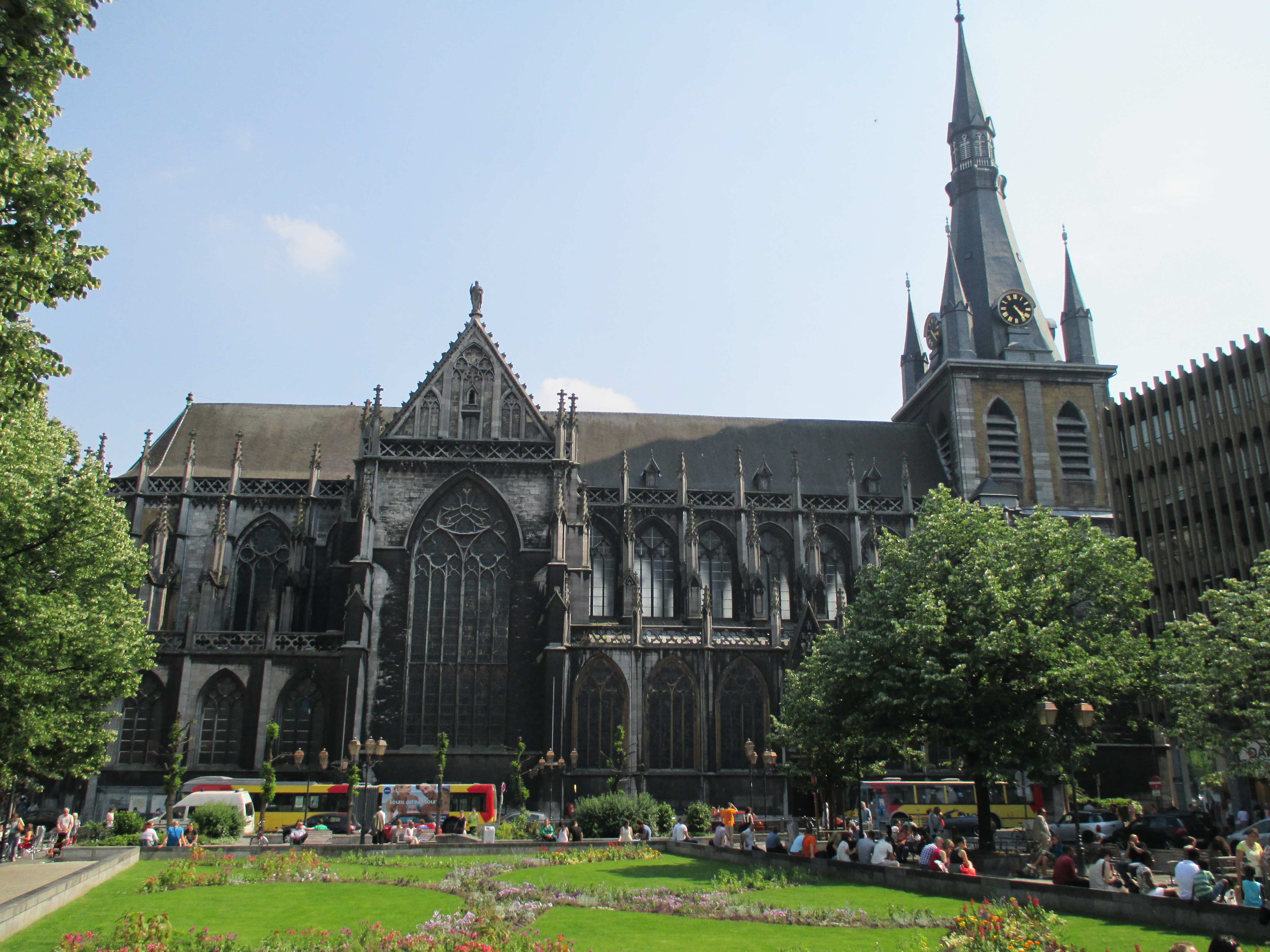 Exterior view of St Paul's Cathedral, from the Cathedral's Square (Liege, Belgium)